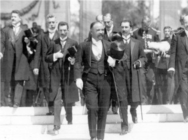 This photograph taken in February 1913 was the last public appearance of Madero and Pino Suárez before they were assassinated.